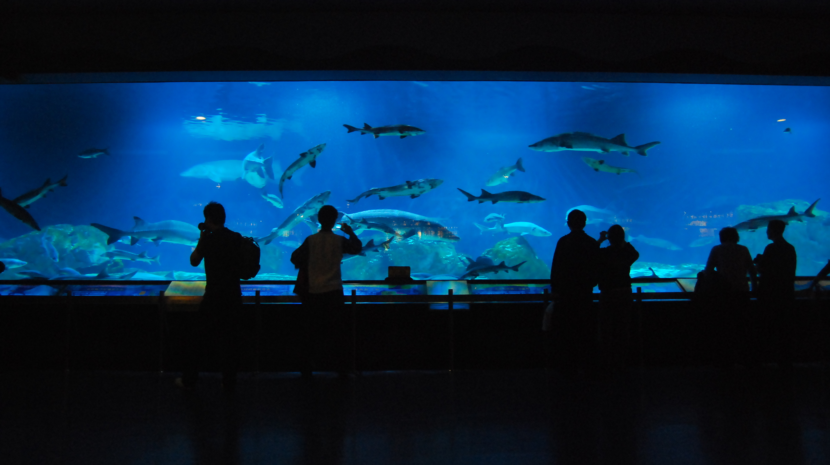 北京海洋馆中饲养者中华鲟的水族箱